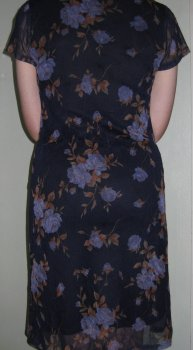 A self portrait of a crossdresser in a dress with hip and buttock padding, viewed from the rear.